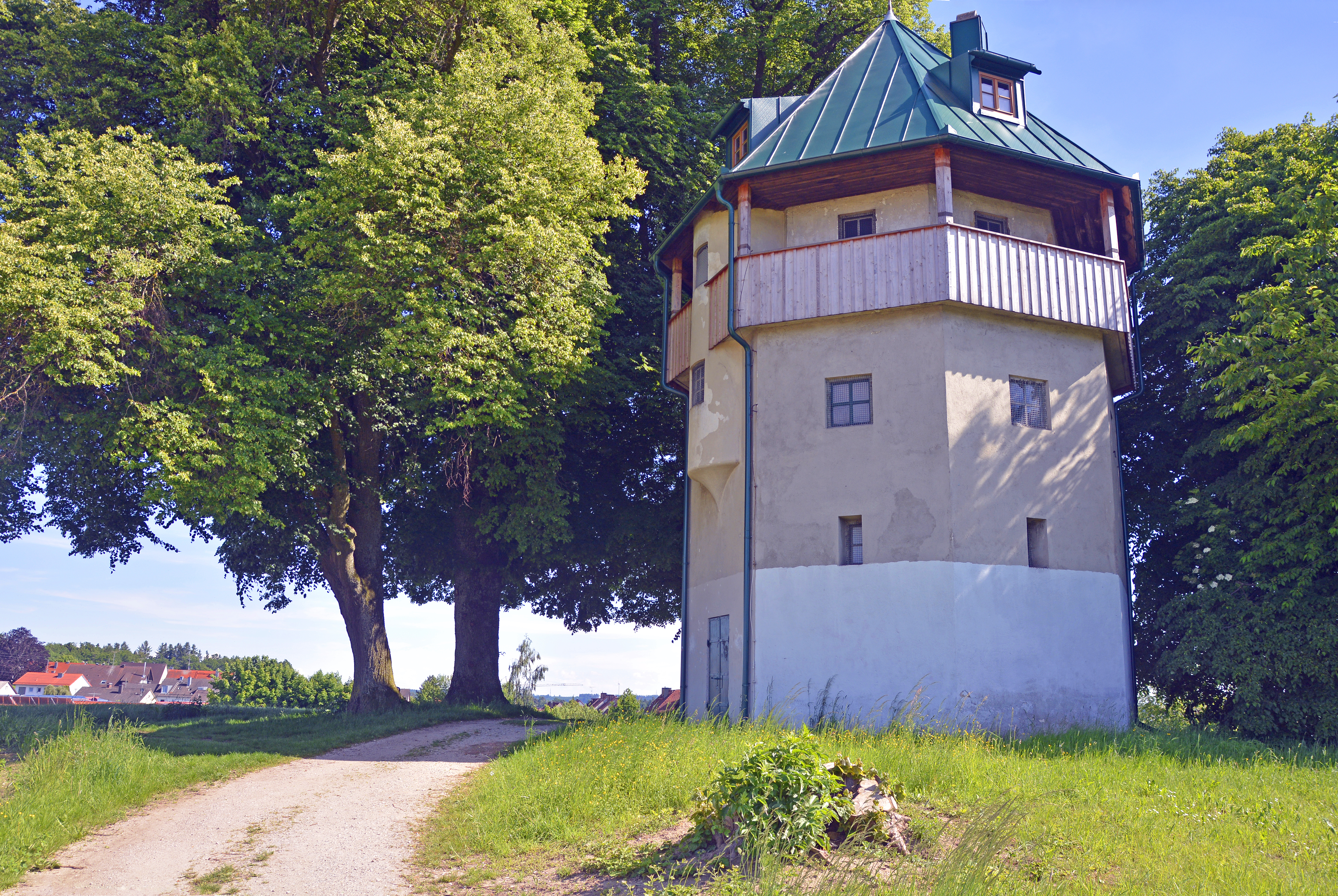 Old Water Tower, Wasserturmweg 24 (Markt Indersdorf in Upper Bavaria)- Former water tower; octagonal with surrounding gallery, built around 1925/30